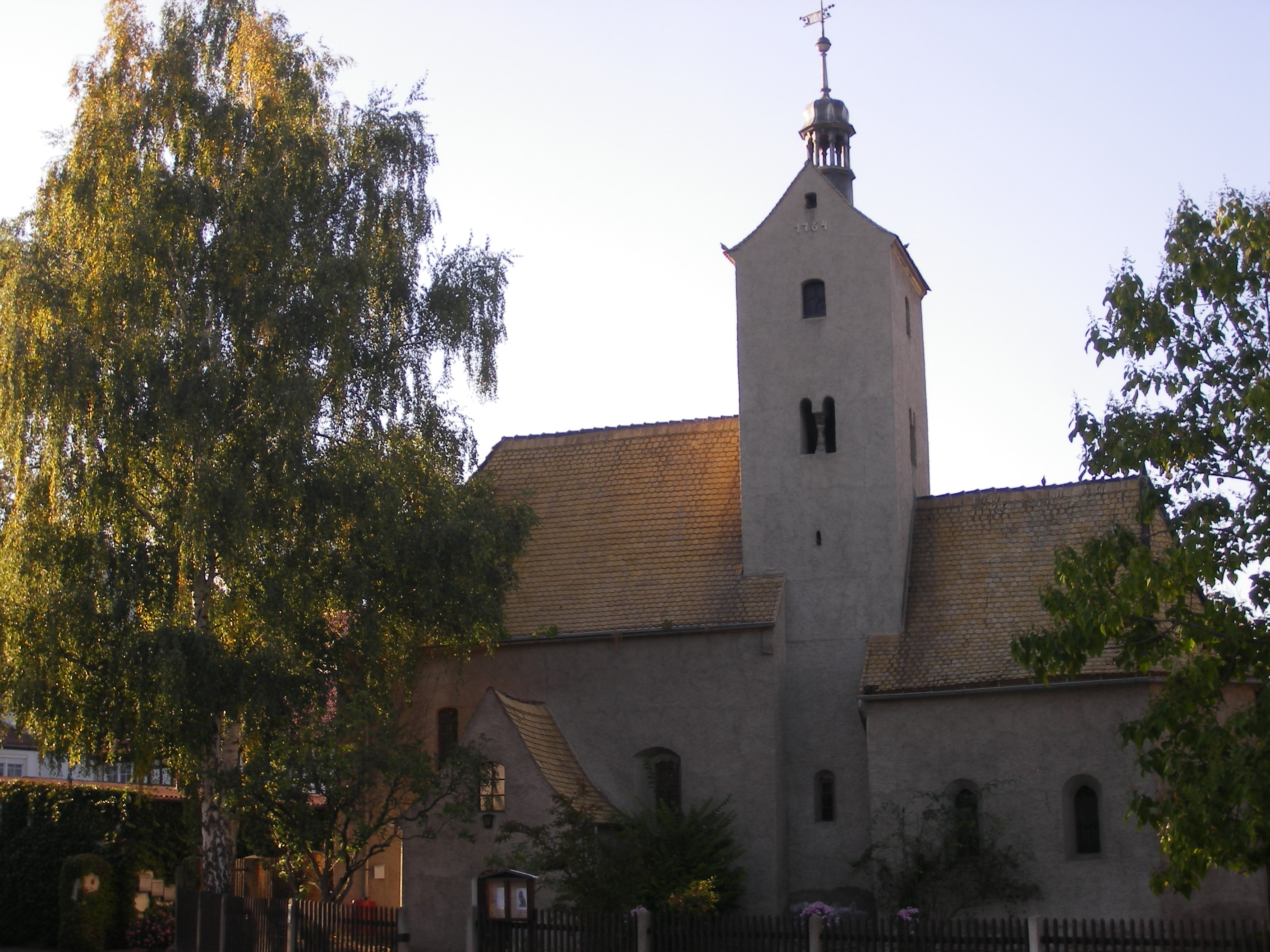 The church in the Altenburger district Rasephas in Thuringia/Germany.